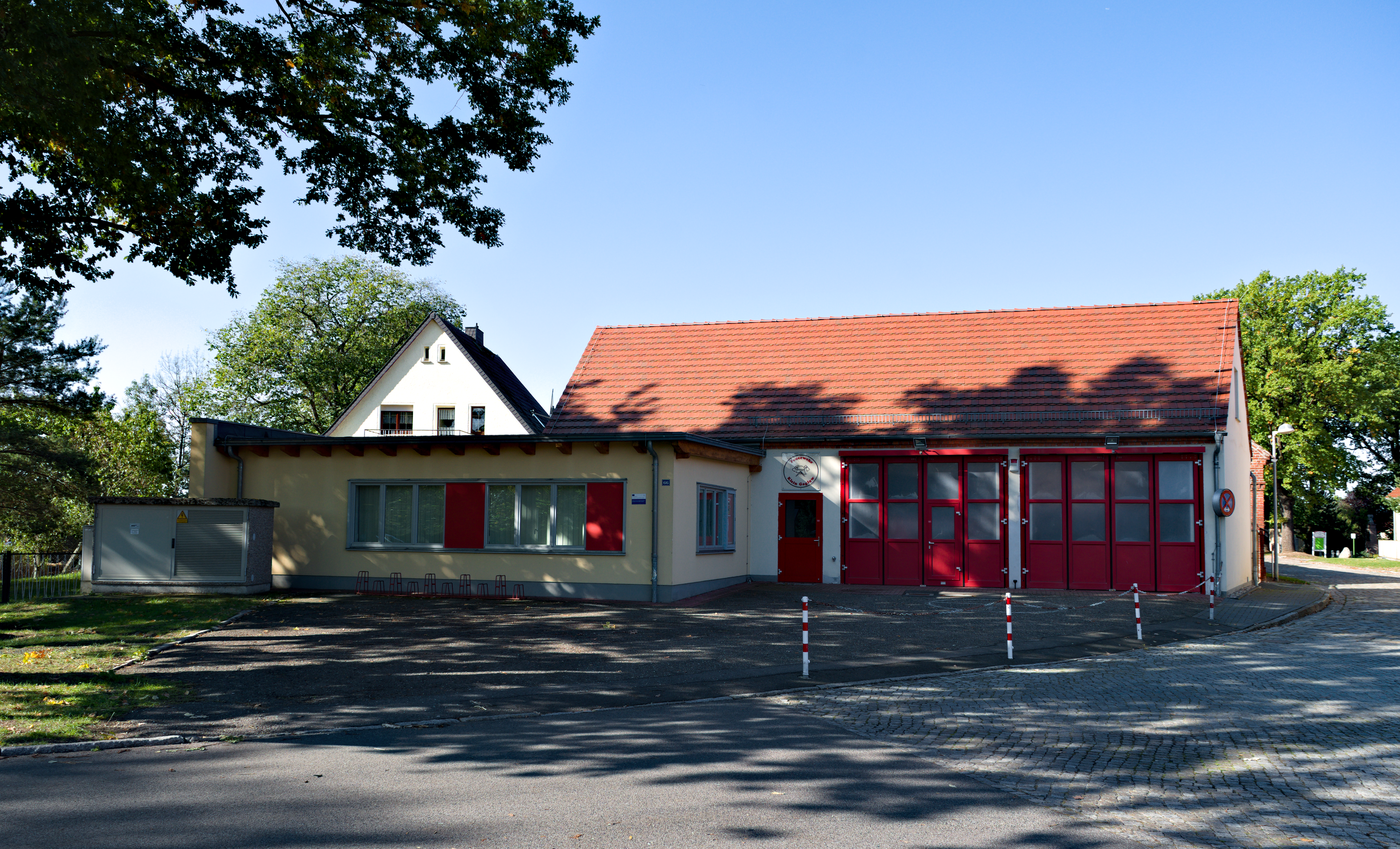 Current fire station of the voluntary fire department Klein Gaglow.